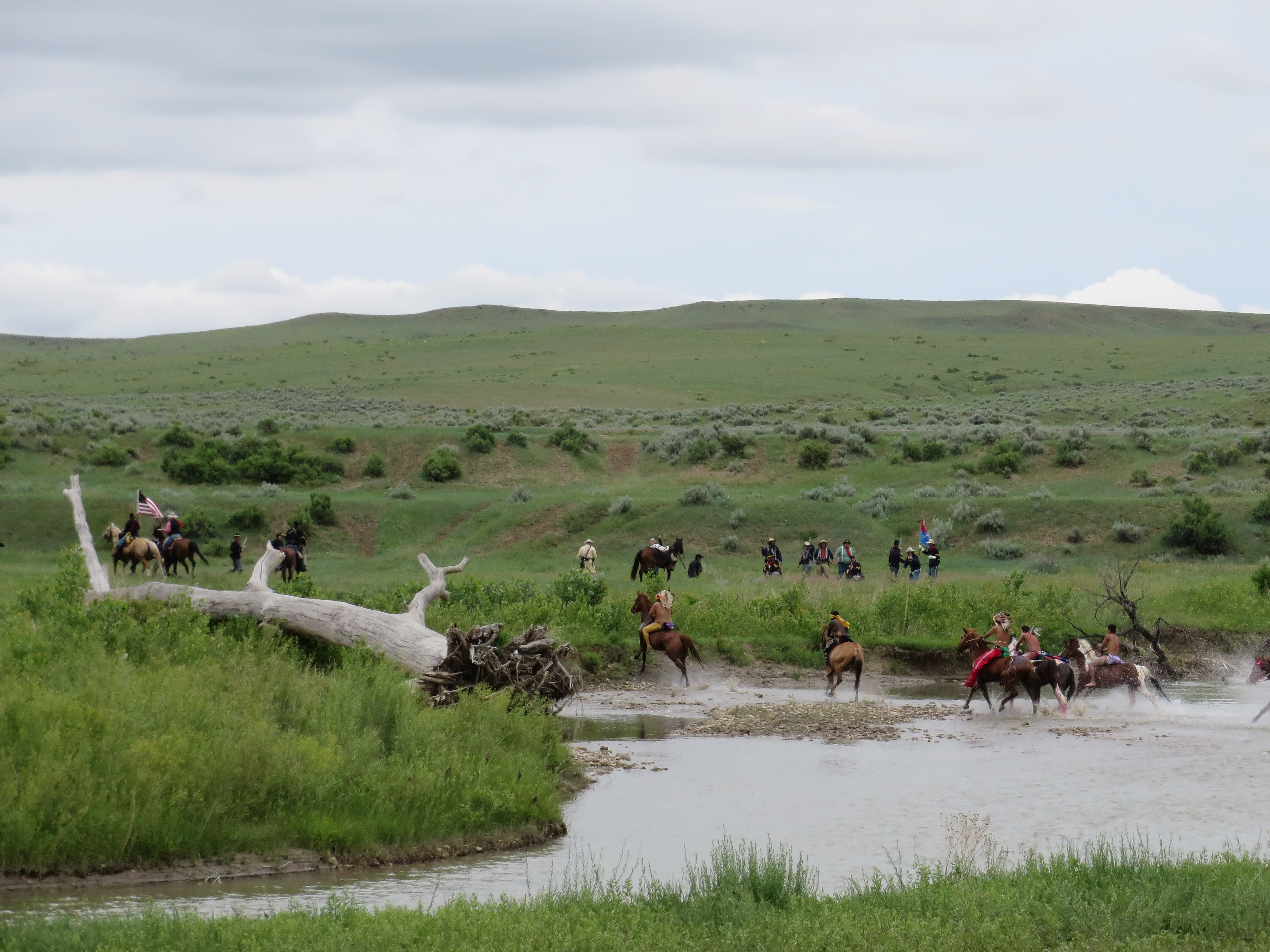 Battle of Little Bighorn Reenactment at the banks of the Little Bighorn River between the Crow Agency and Garryowen, Montana.